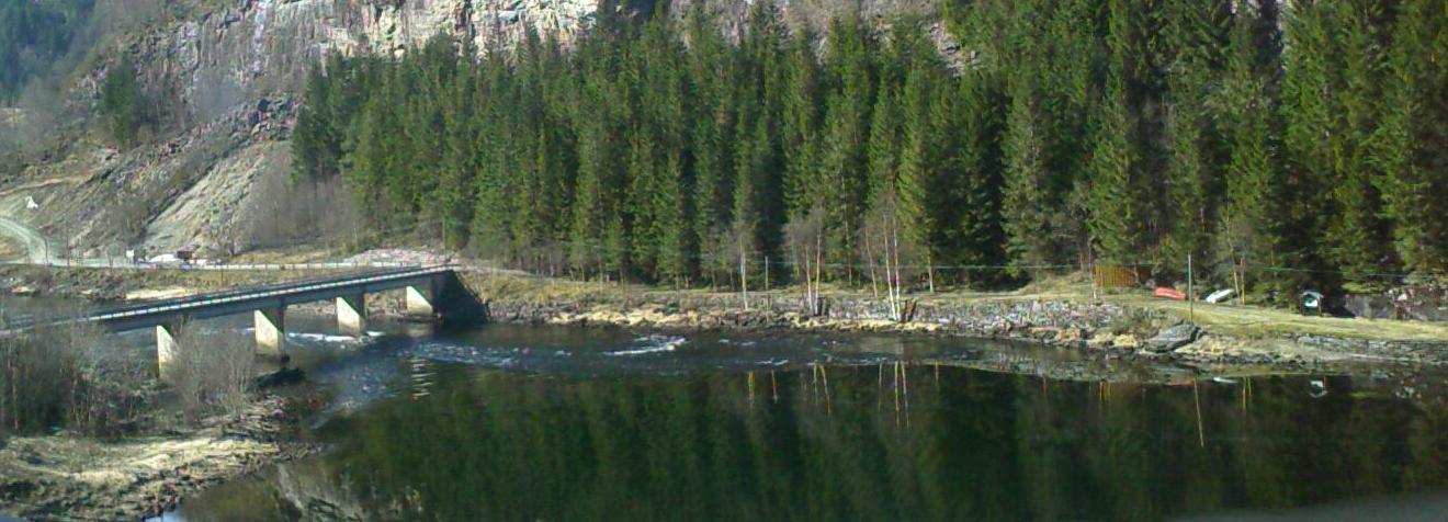 The end of the lake "Evangervatnet" where it meets the river "Bolstadelva".